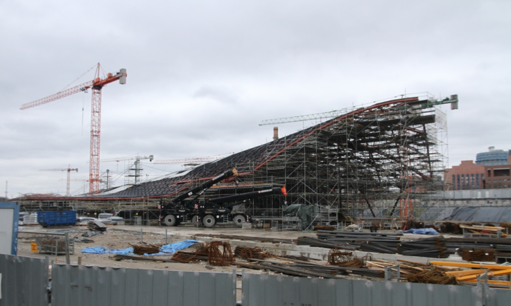 New Łódź Fabryczna railway station under construction